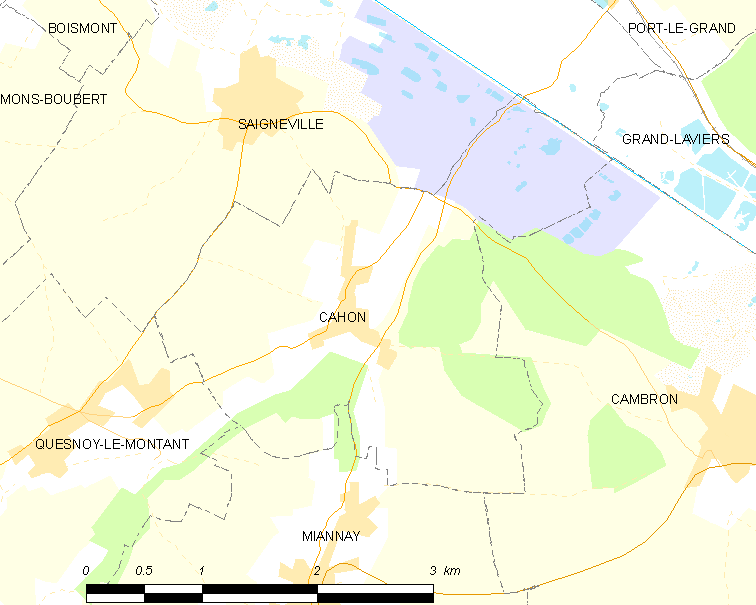 Map of French municipality Cahon